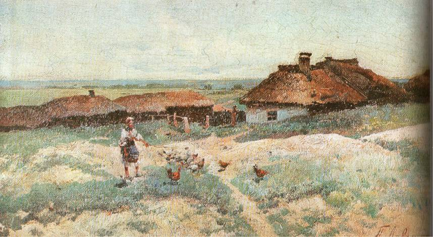 Hutir